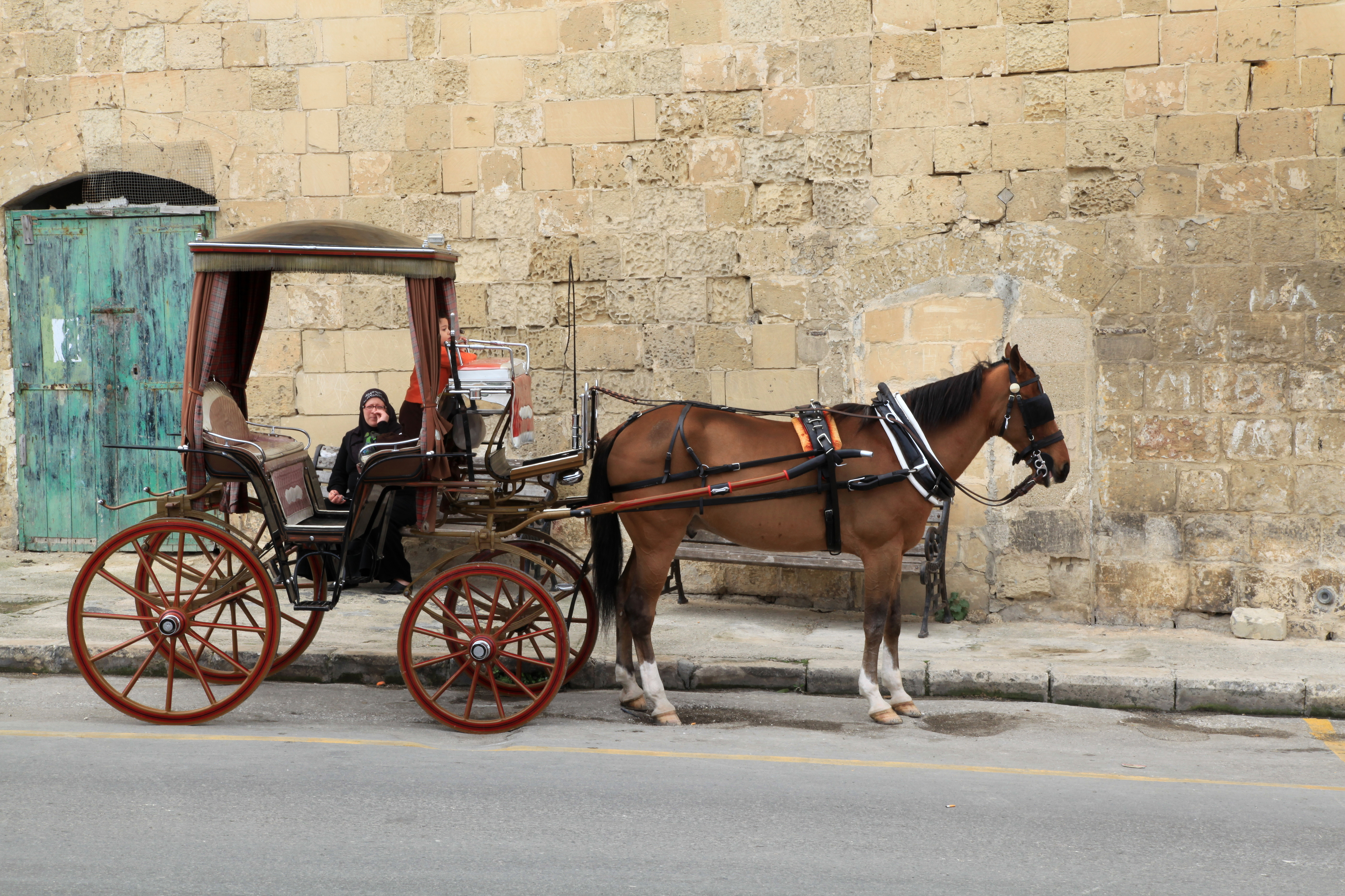 Misraħ Sant' Iermu in Valletta, Malta